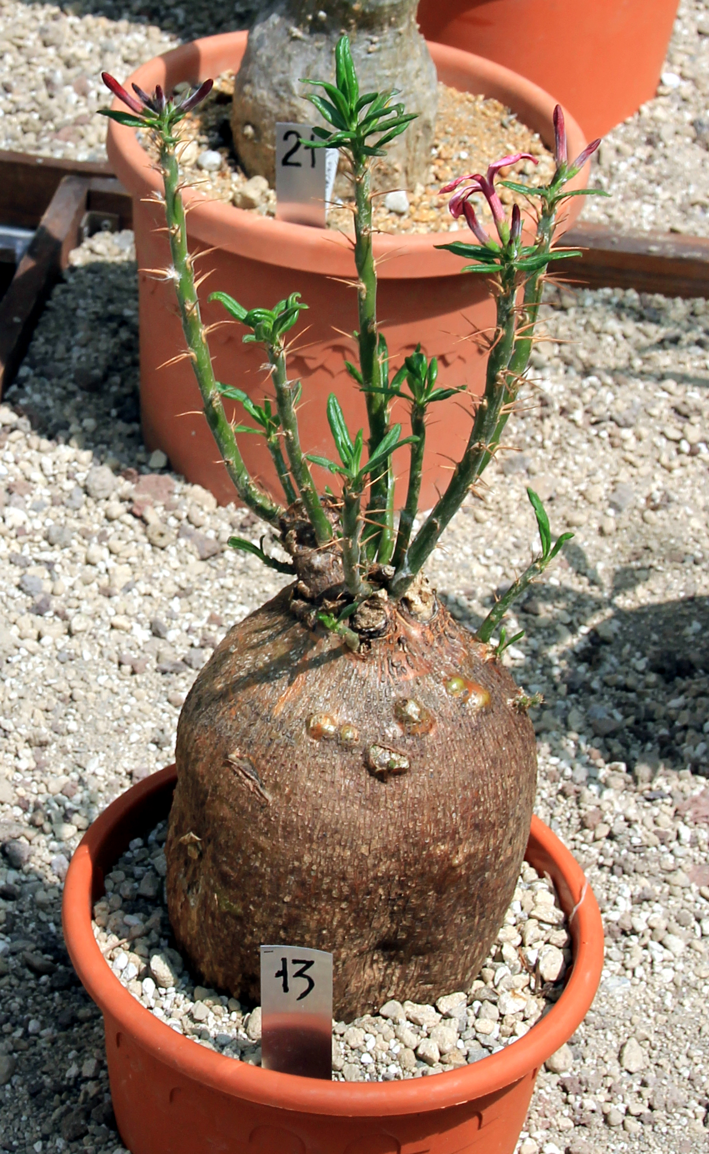 Succulent Pachypodium succulentum on Exhibition of Cactuses and succulets in the Botanical Gardens of Charles University, 28.05. - 15.06.2016 Prague, Czech Republic